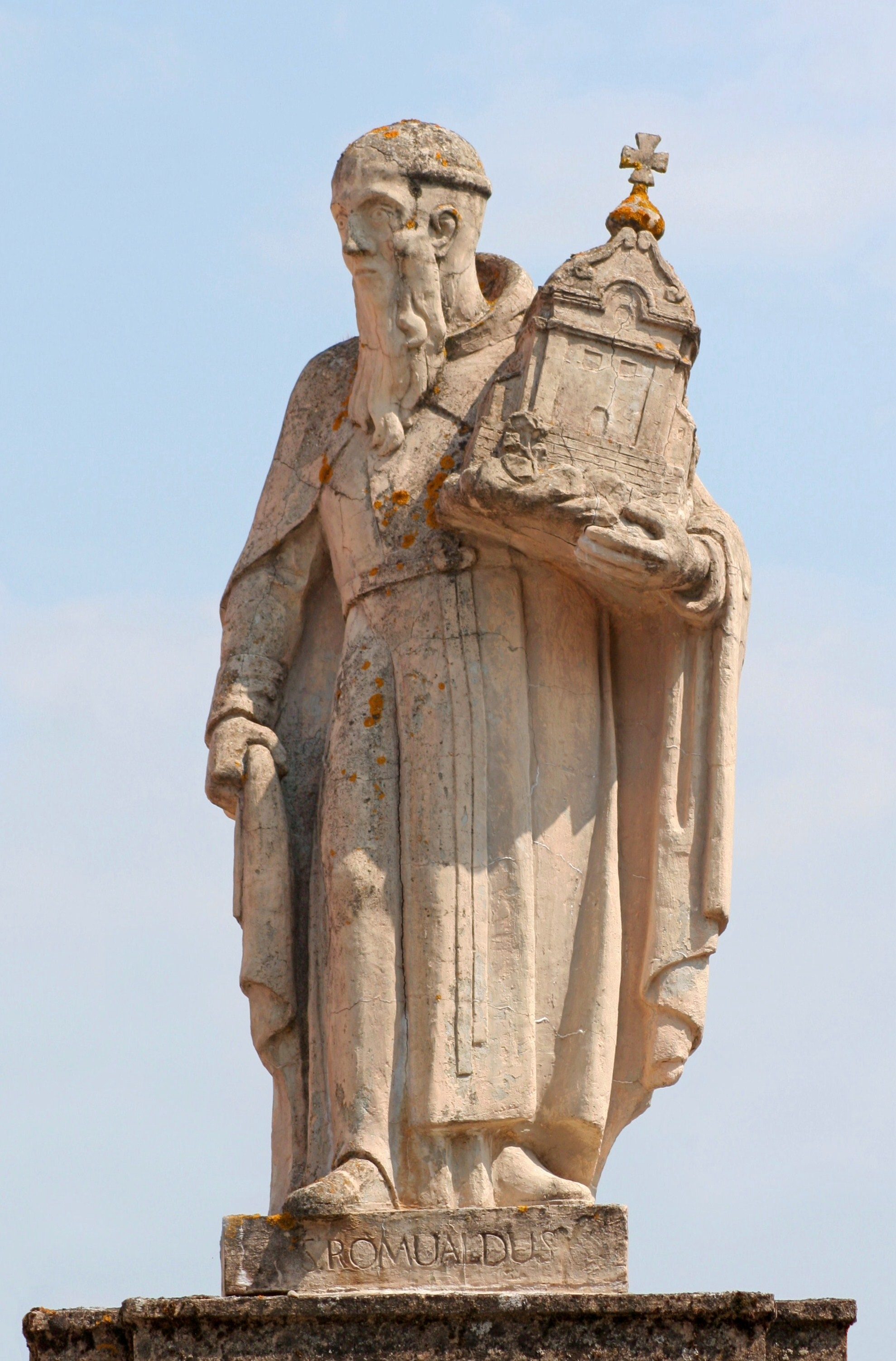 Statue of St. Romuald in Wigry.